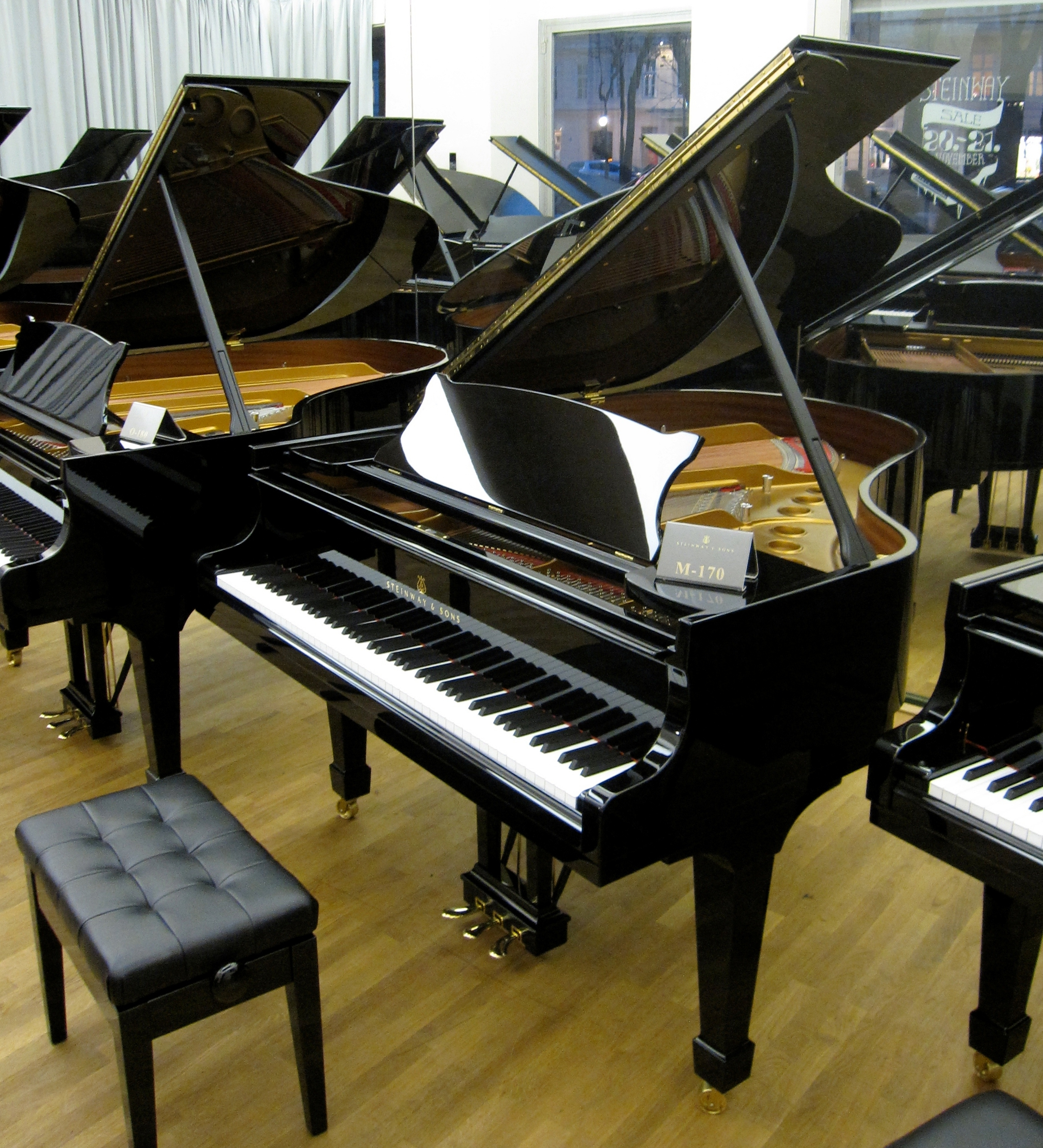 A grand piano in high polish polyester finish by Steinway & Sons, model M-170, in Steinway-Haus Wien (Steinway Hall Vienna)